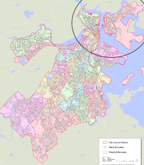 Boston City Council District 1 indicated on map of Boston "City Council Districts. 2012 Approved Plan. Last update 12/2012. 34 x 44"." Massachusetts, USA.